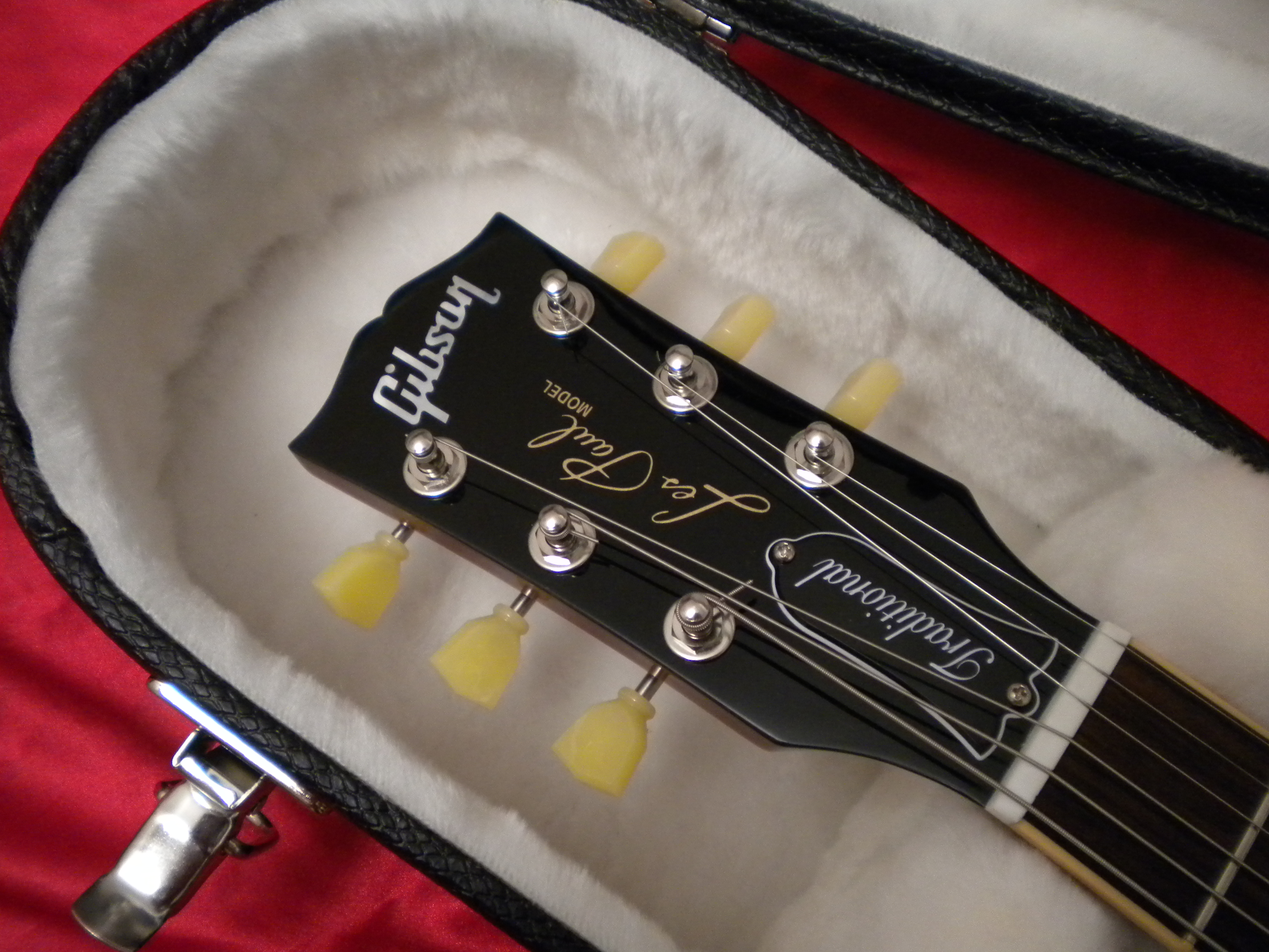 Les Paul Traditional headstock.